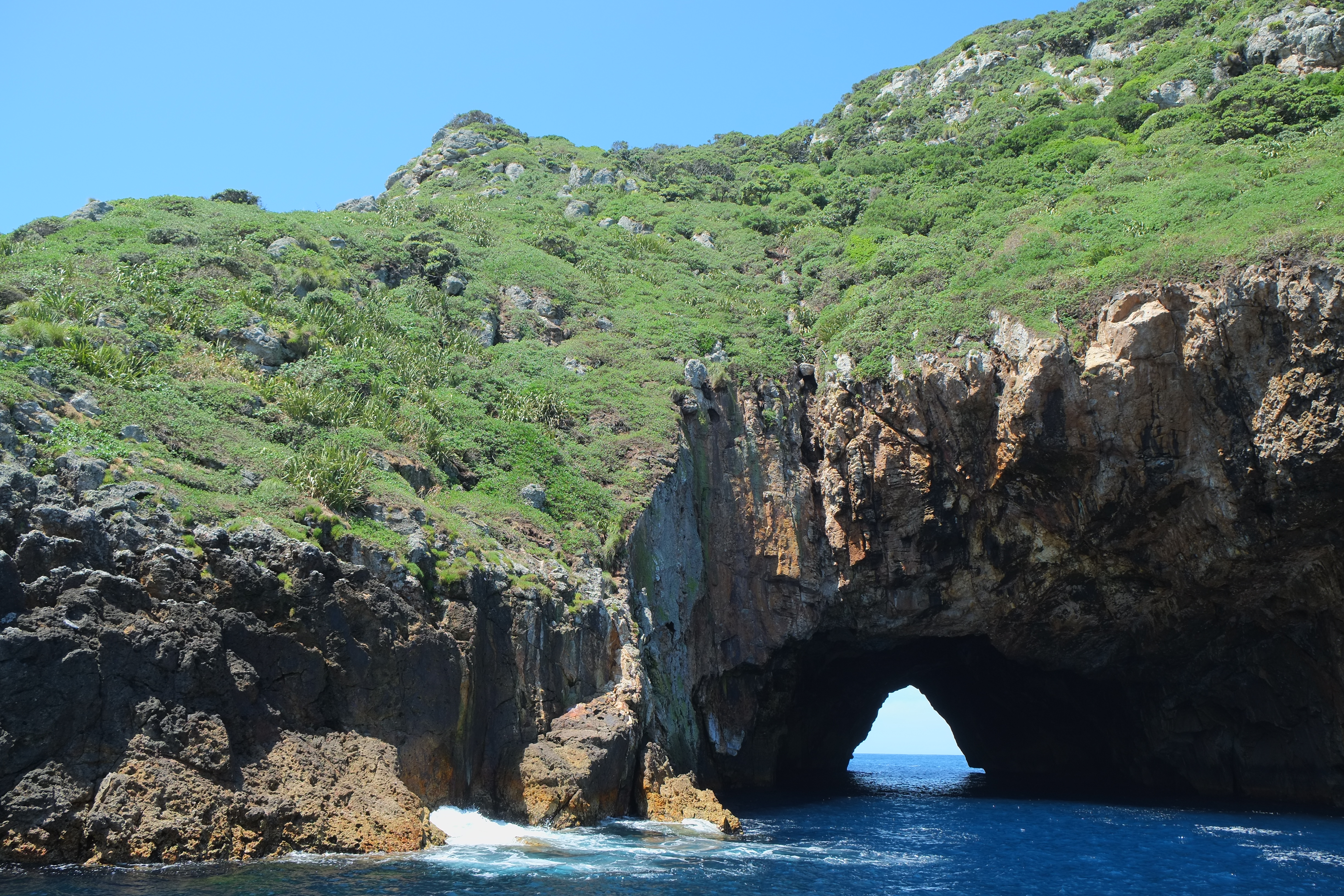 Rock arch "The Tunnel" in Aorangaia Island from west